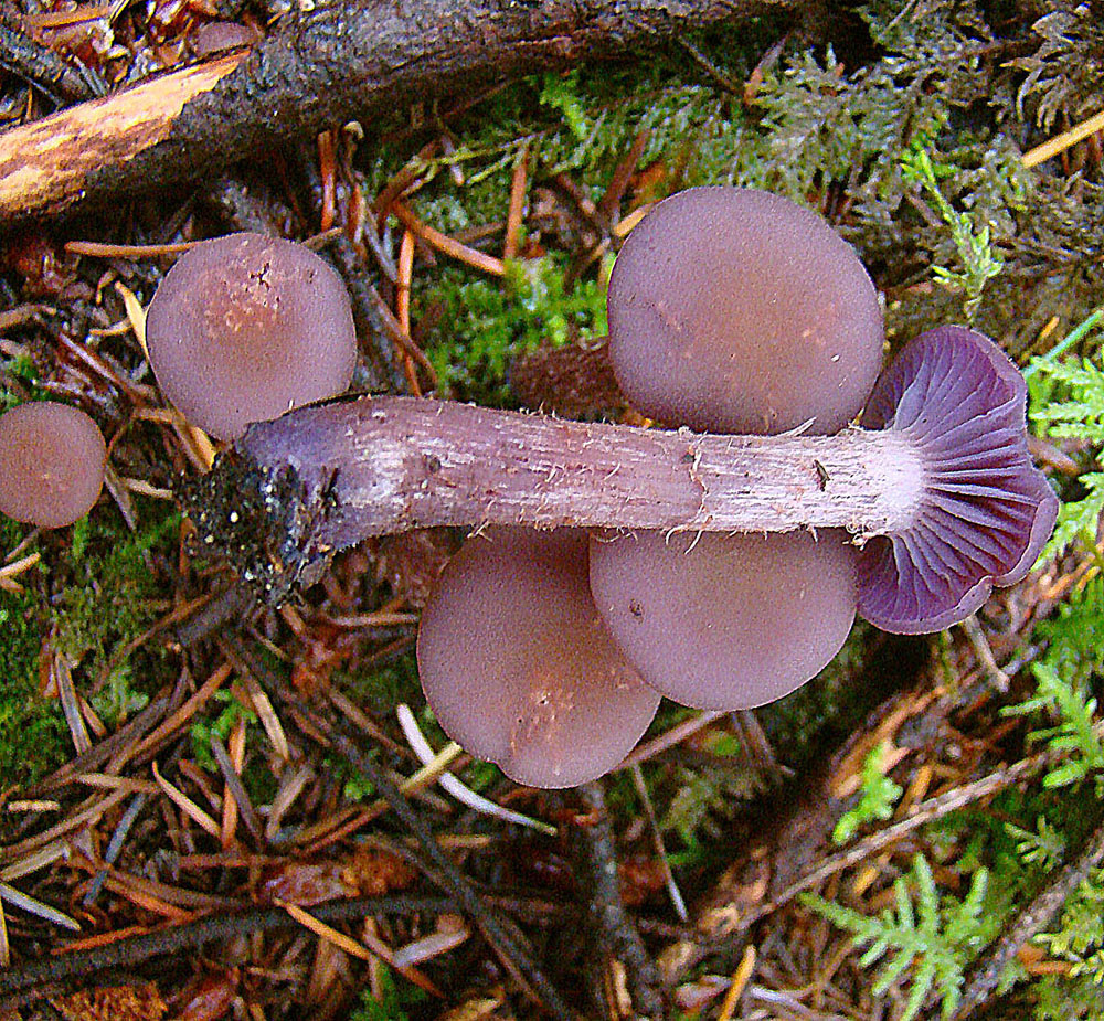 A colorful species of western North America, going by names such as the Amethyst Deceiver or Western Amethyst Laccaria.